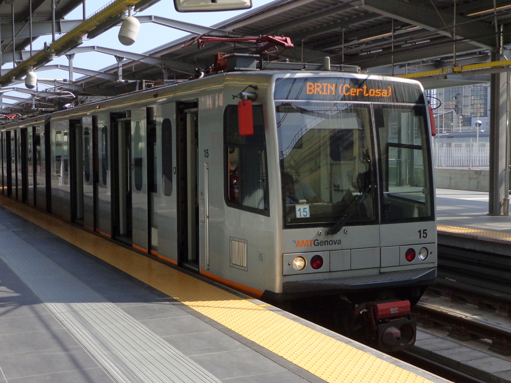 Railcar n. 15 of Genoa metro in Brignole station.